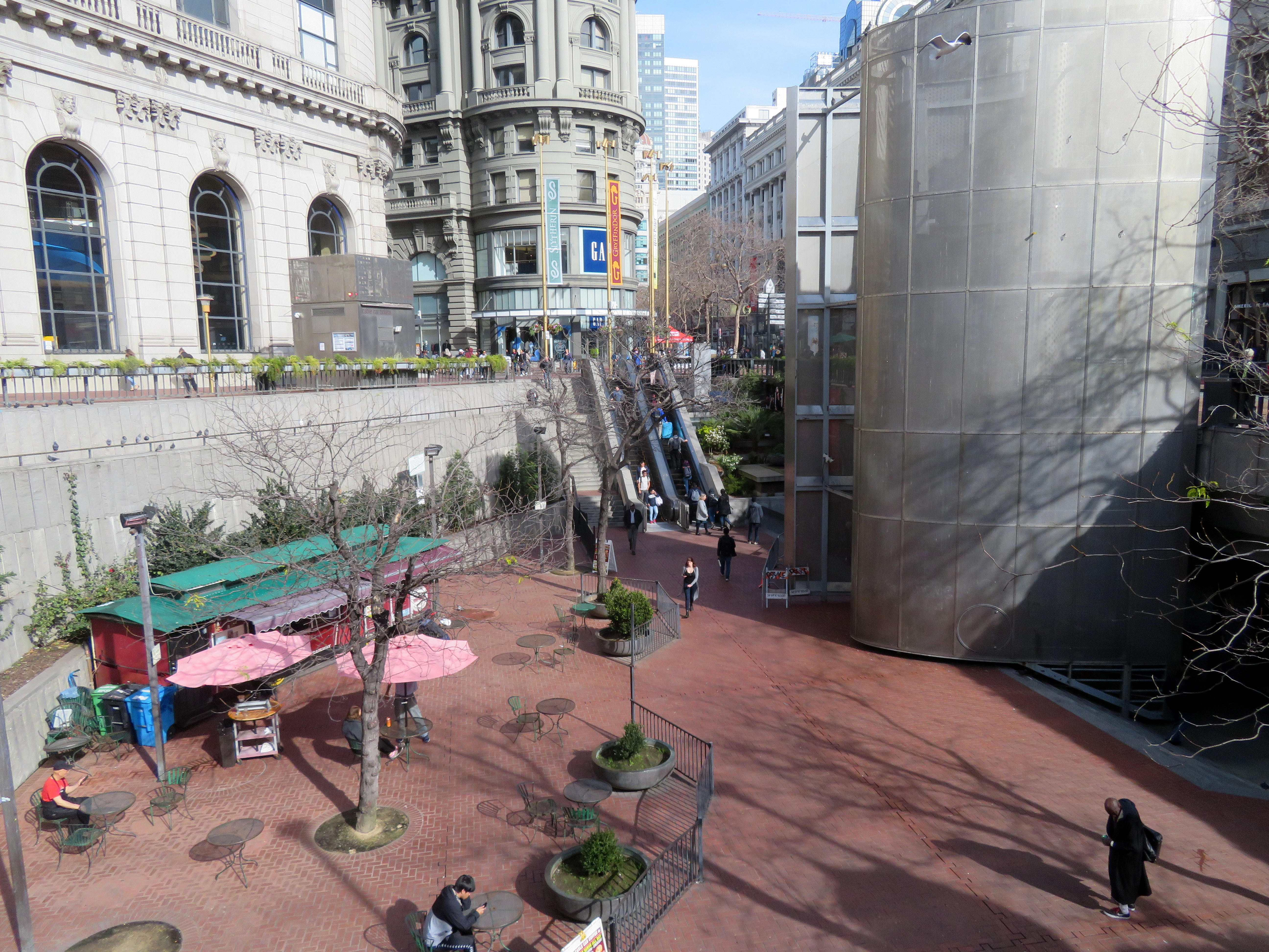 Hallidie Plaza in January 2020